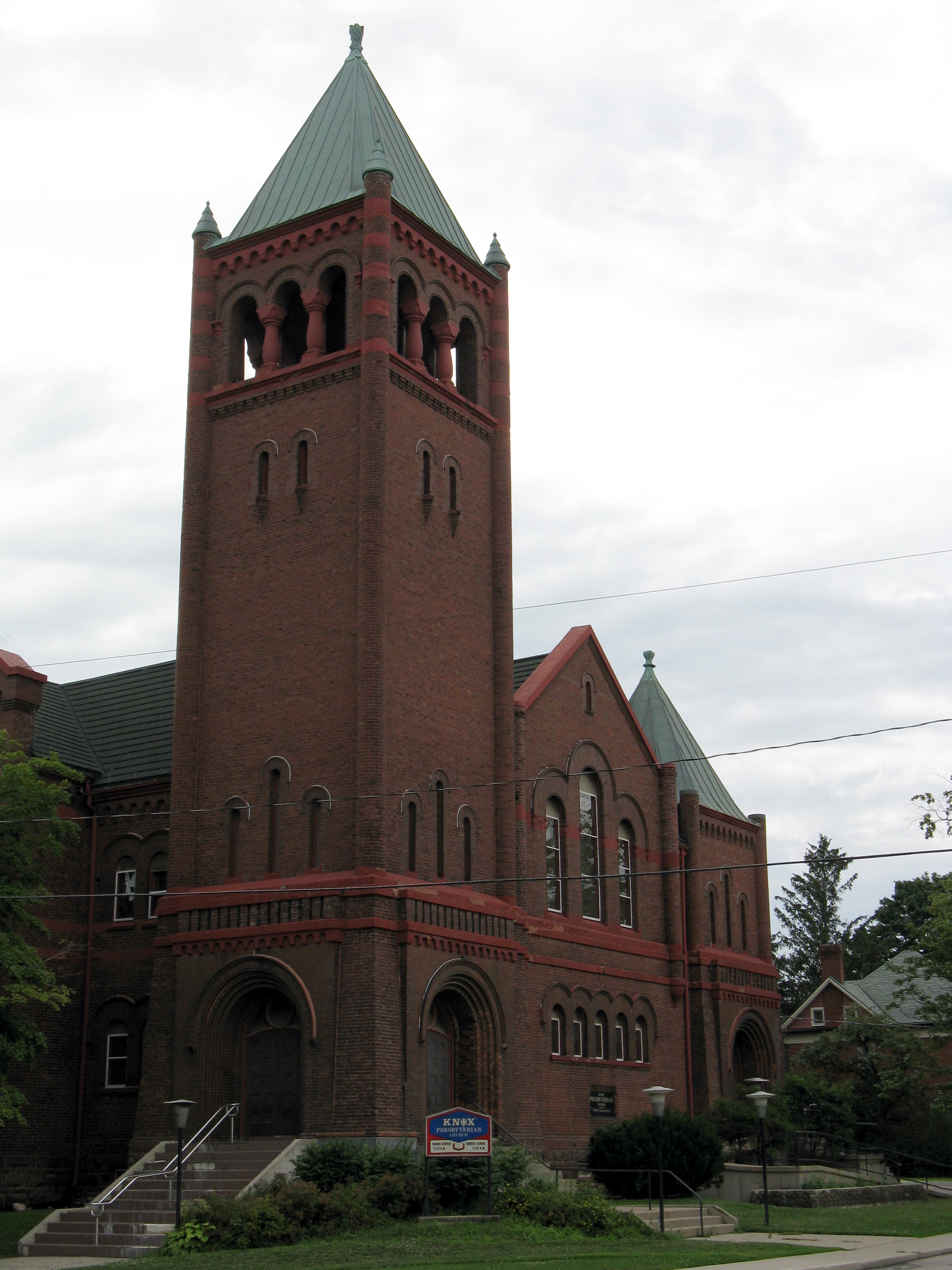 Knox Presbyterian Church in Woodstock, Ontario.